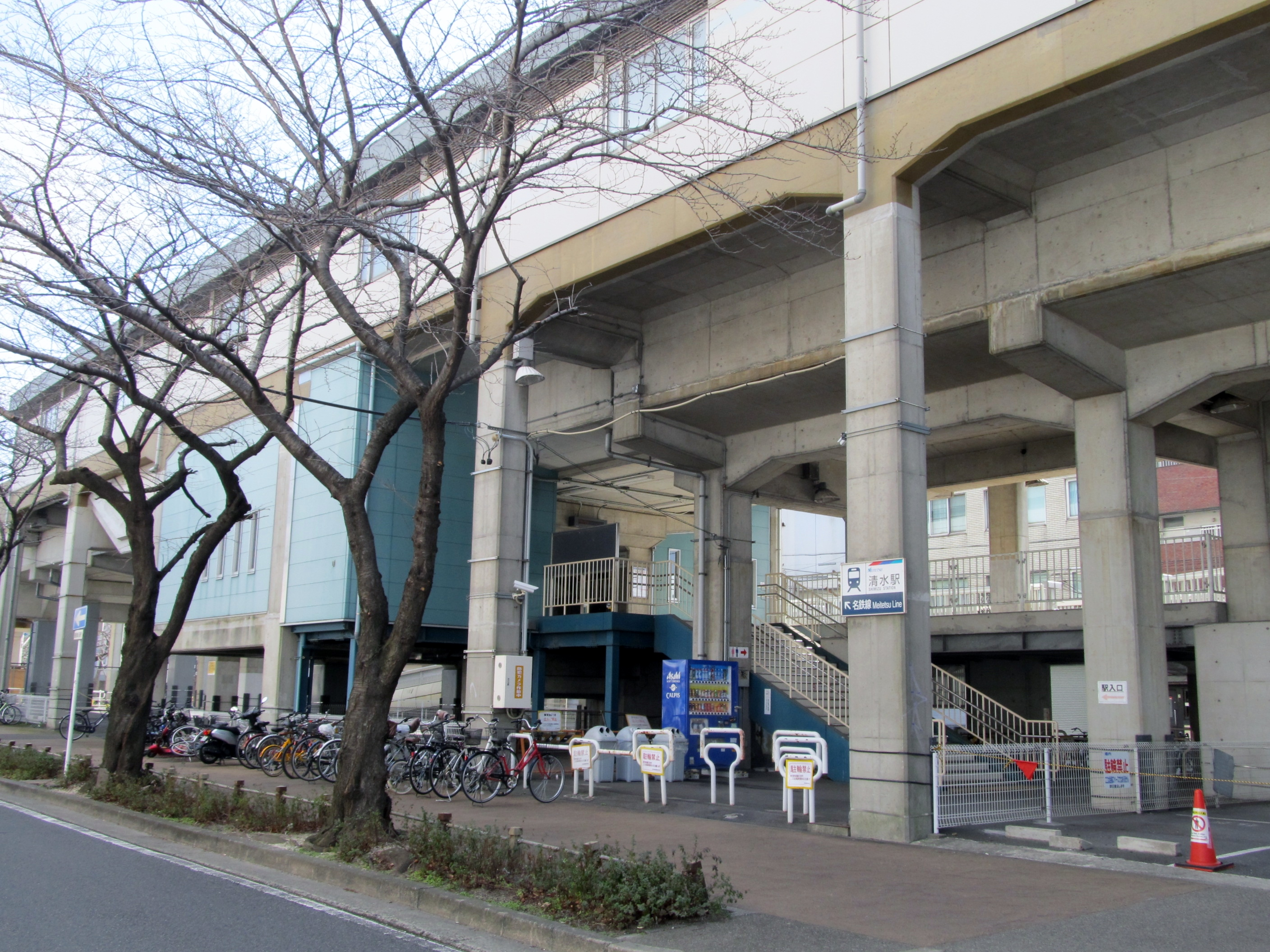 Nagoya Railroad Seto Line Shimizu Station Building